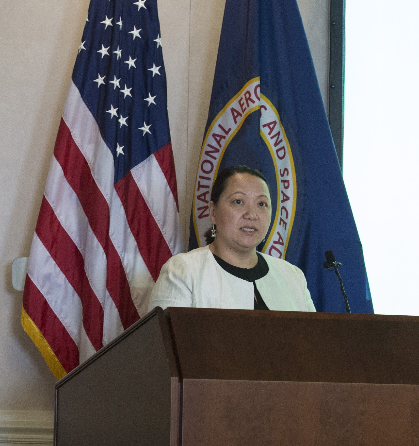 BO THAO-URABE, A MEMBER OF PRESIDENT BARACK OBAMA’S COMMISSION ON ASIAN AMERICANS AND PACIFIC ISLANDERS, SPOKE TO TEAM MEMBERS OF NASA’S MARSHALL SPACE FLIGHT CENTER DURING AN ASIAN AMERICANS AND PACIFIC ISLANDERS MONTH CELEBRATION EVENT MAY 31.